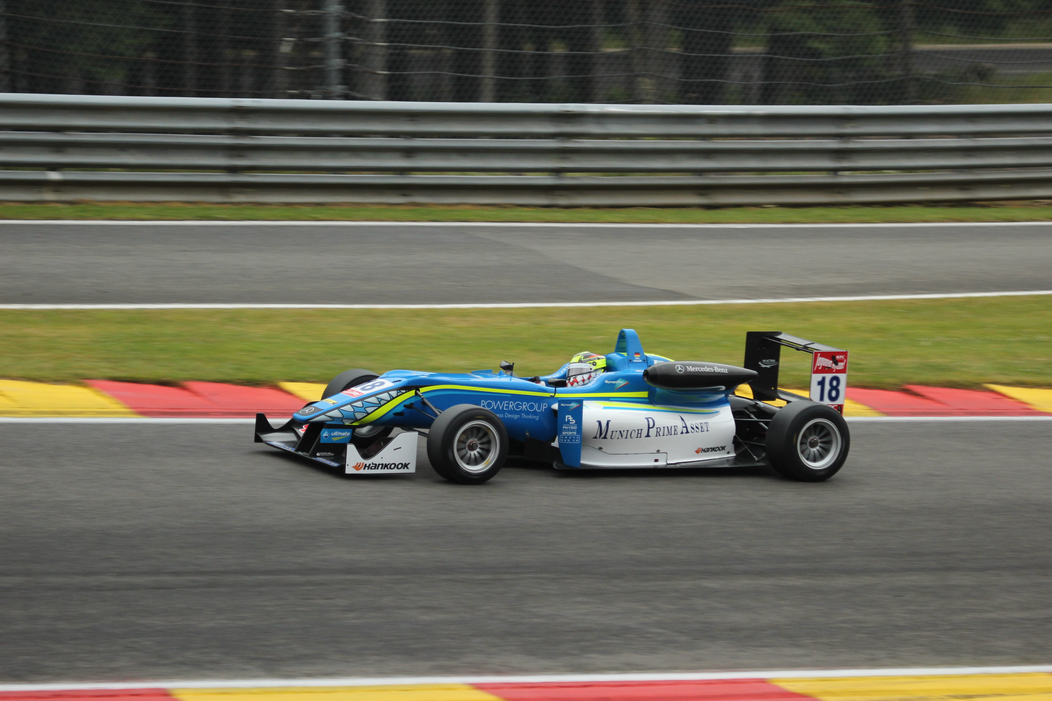 Nicolas Pohler at Spa in 2015, European Formula 3 Championship